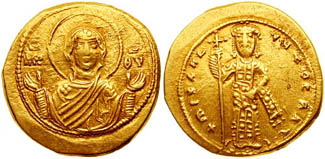 MICHAEL VI, Stratioticus. 1056-1057 AD. AV Tetarteron (4.06 gm). Constantinople mint. MHP QV, facing nimbate bust of Mary orans / + MIXAHL AUTOCRAT', Michael, crowned and garbed in loros, standing on footstool, holding long cross and akakia. DOC III 2.2; BN 1; SB 1841. Good VF. Rare. ($2000) Michael served in the office of logothetes tou stratiotikou (approximately a comptroller for military finances) and his elevation to the throne after the death of Theodora was a rather sly maneuver by court grandees to take control of the government. The church, the aristocracy and the army all took a dim view of this, and the hapless Michael proved unable to win them over. When the general Isaac Comnenus revolted in June 1057 Michael quickly acceded to his demands for power sharing, but a few months later a conspiracy amongst the factions in Constantinople forced Michael's complete abdication.